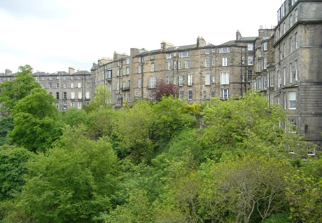 Randolph Crescent backs of houses, from the Dean Bridge